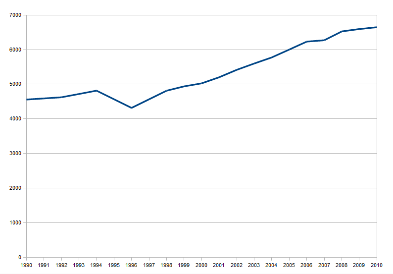 Evolution of the Arbúcies' people until 1990